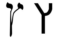 hebrew letter final tsadi